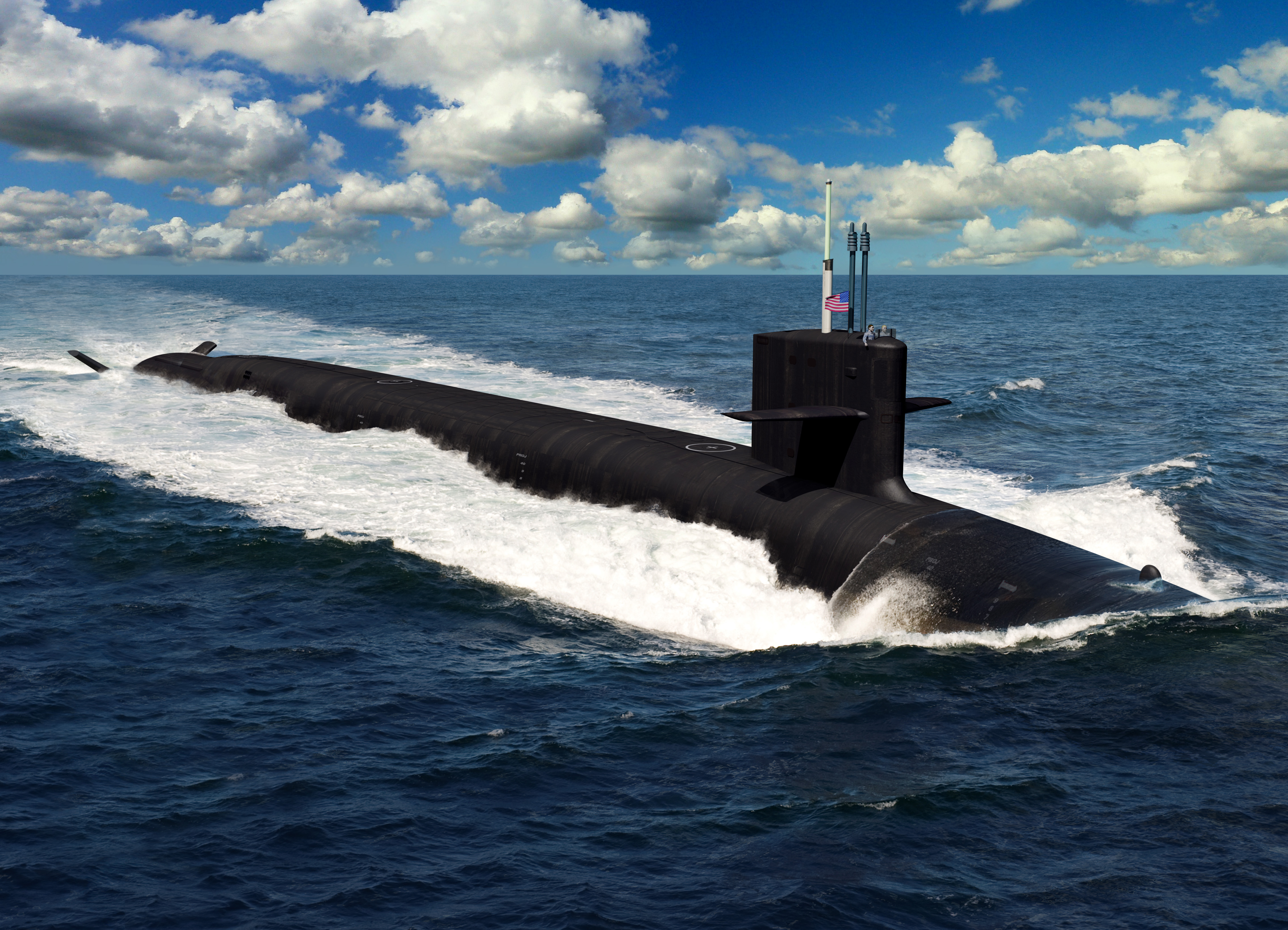 An artist rendering of the future U.S. Navy Columbia-class ballistic missile submarines. The 12 submarines of the Columbia-class will replace the Ohio-class submarines which are reaching their maximum extended service life. It is planned that the construction of USS Columbia (SSBN-826) will begin in in fiscal year 2021, with delivery in fiscal year 2028, and being on patrol in 2031.